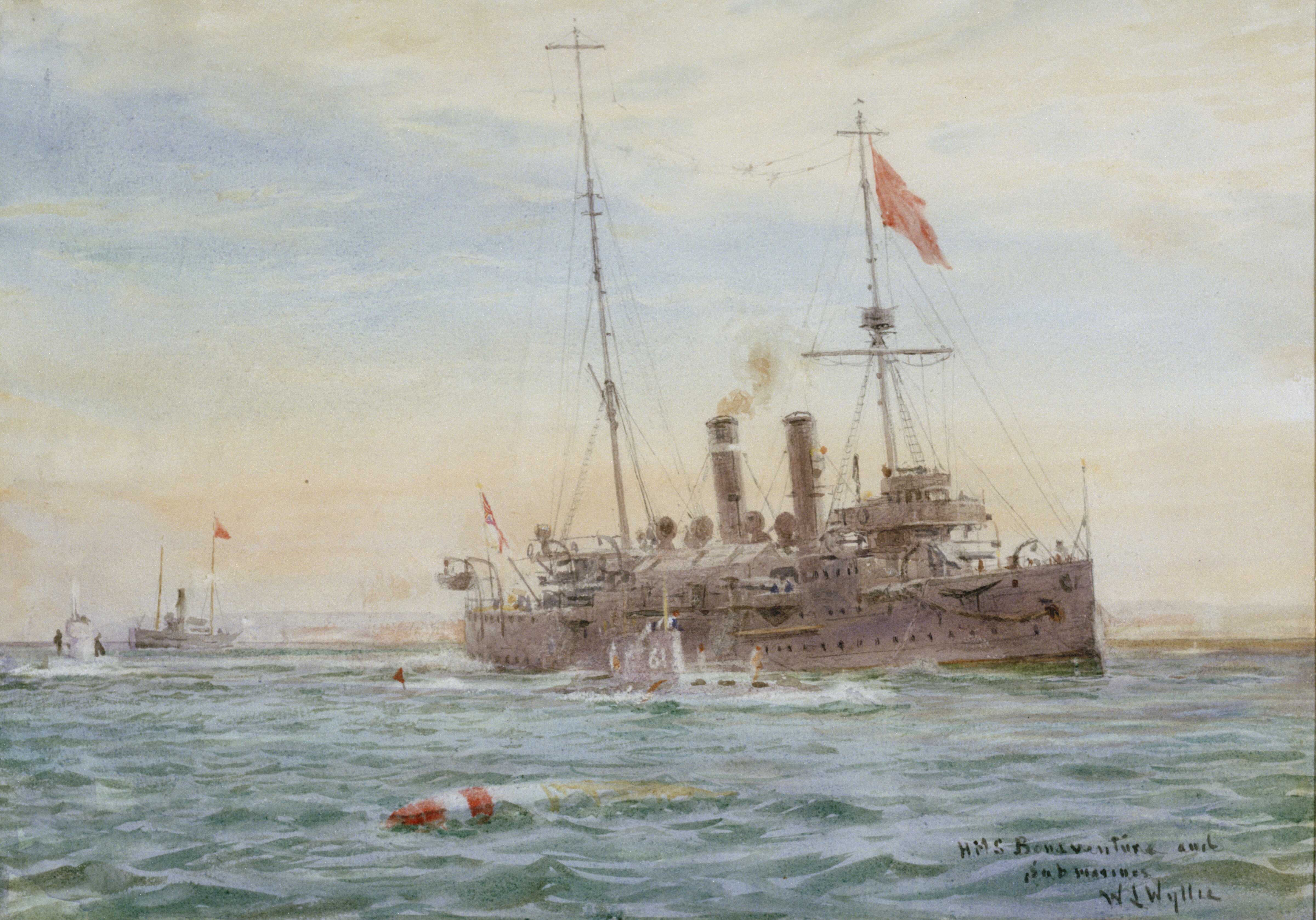 'HMS Bonaventure and submarines' Inscribed, as title, and signed by the artist, lower right. The 'Bonaventure' (1892) was a second-class protected cruiser converted to a submarine depot ship in 1907. This finished watercolour shows the ship in her 1911-14 condition. Both the 'Bonaventure' and the trawler tender on the left are flying the large red flags, advising other vessels to keep clear of a submarine operating area. The submarine with the number '61' , lying close to 'Bonaventure', is the 'C31', launched on 2 September 1909 and lost by unknown cause after leaving Harwich for the Belgian coast on 4 January 1915. What appears to be a practice torpedo is in the foreground and an unidentifiable submarine on the left. As the circumstances indicate, the drawing is of an exercise off the English coast, probably in the Channel from the relatively high ground behind. Rochester Bridge